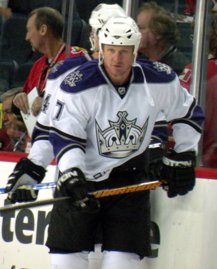 Los Angeles Kings forward Derek Armstrong during warmup prior to a National Hockey League game against the Calgary Flames in Calgary.